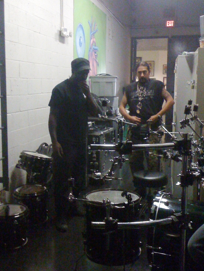 Drummer Mike Smith of Suffocation on backstage w/roadie